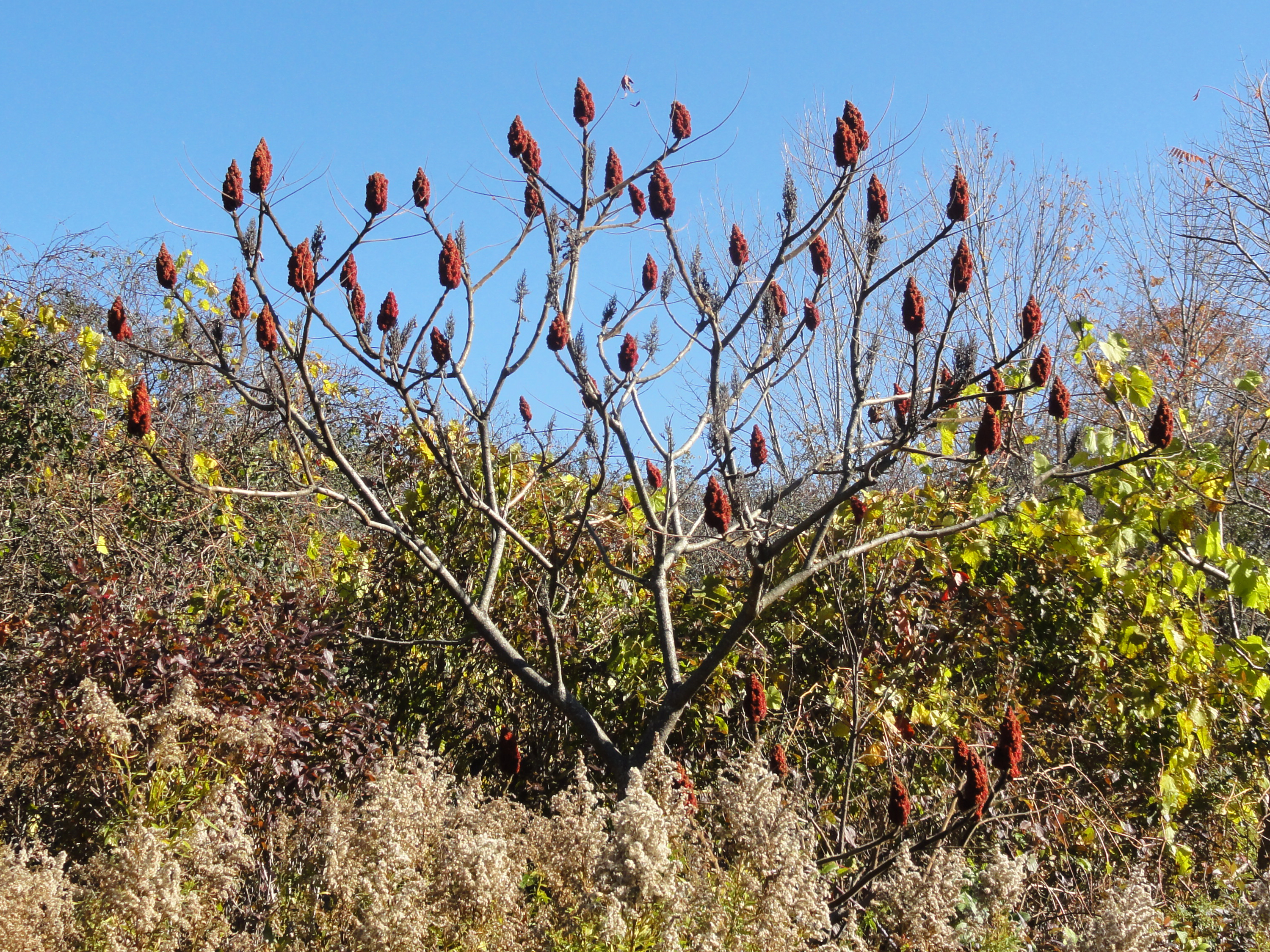 Rhus typhina - staghorn sumac - at the Skaneateles Conservation Area, Onondaga County, New York